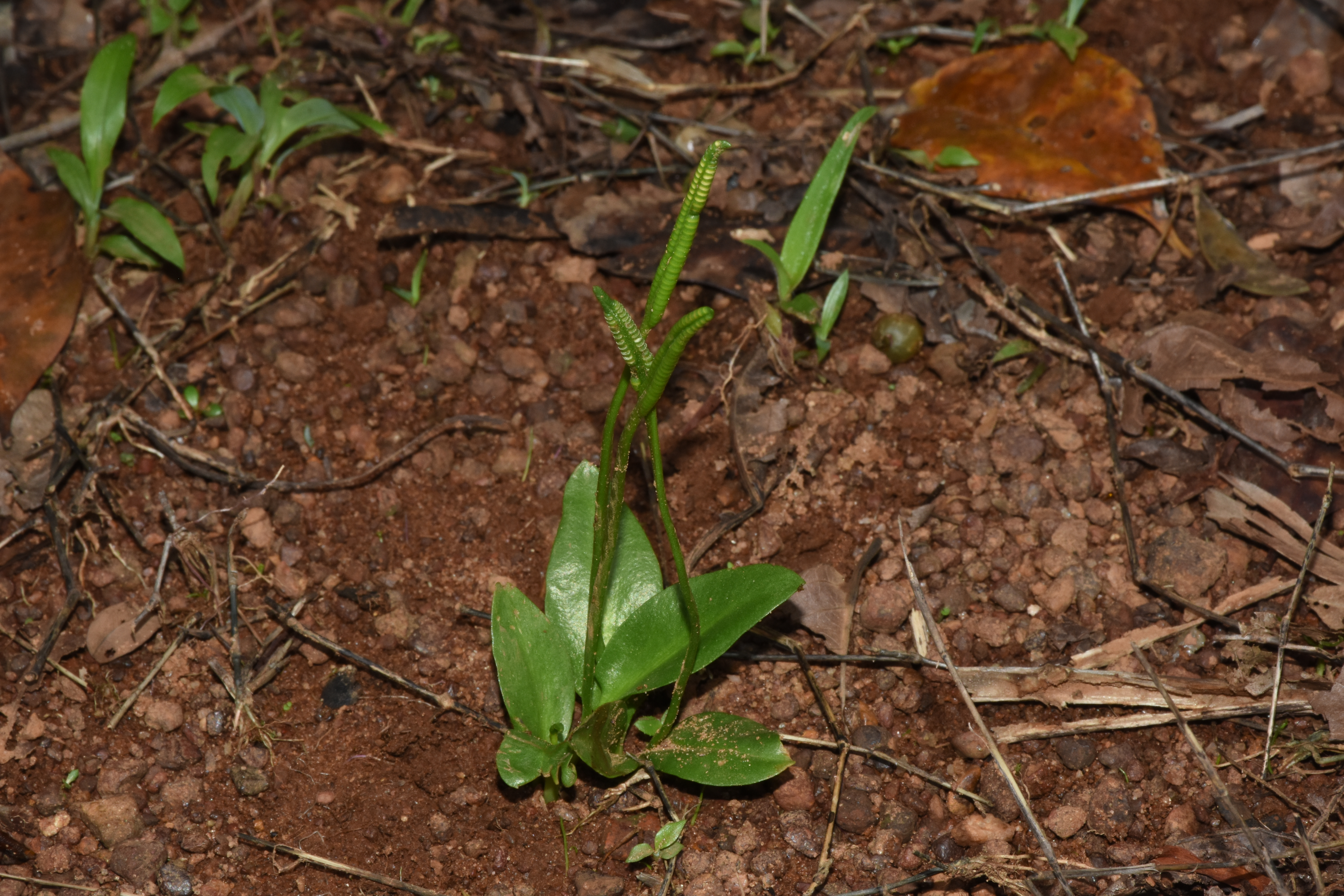 the fertile stalk resembles the tongue of a snake. hence the name